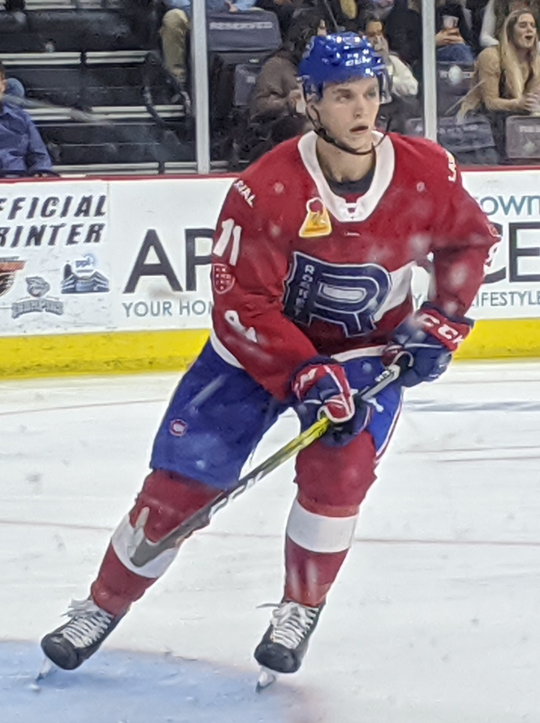 Ņikita Jevpalovs, a forward with the Laval Rocket ice hockey team, at the PPL Center in Allentown, Pennsylvania, on January 11, 2020.